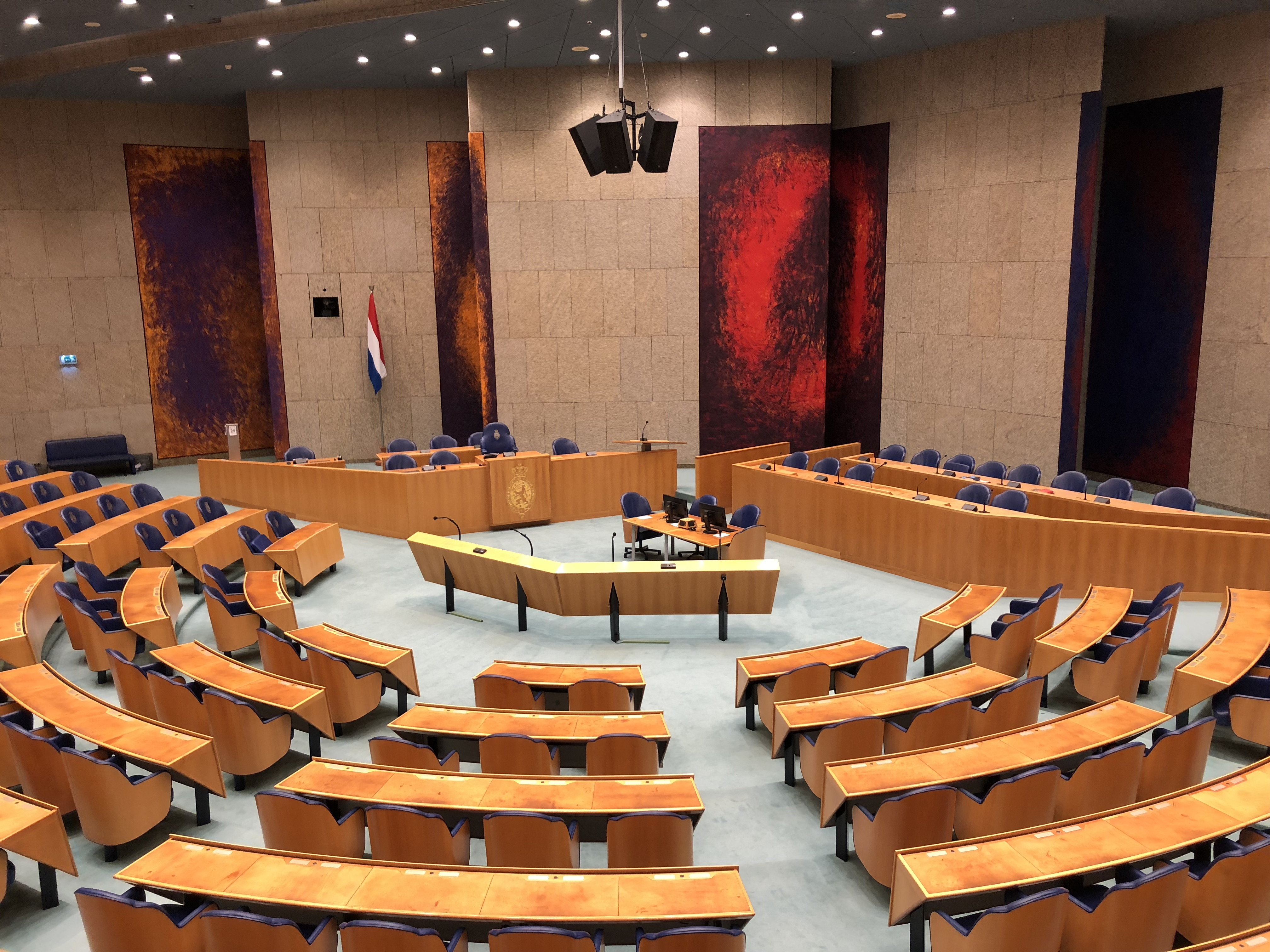 Plenary Hall of the Dutch House of Representatives in The Hague, the Netherlands. Landscape format.